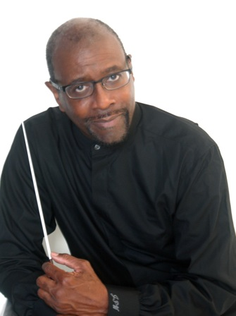 A profession shot of the Maestro Williams.